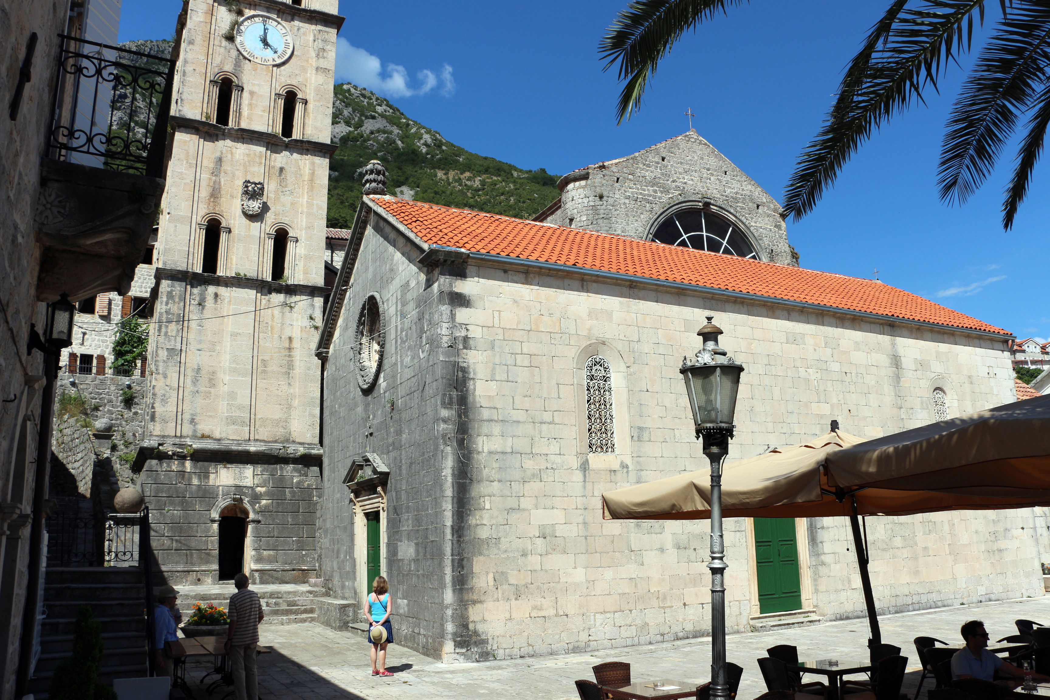 Saint Nicholas church in Perast